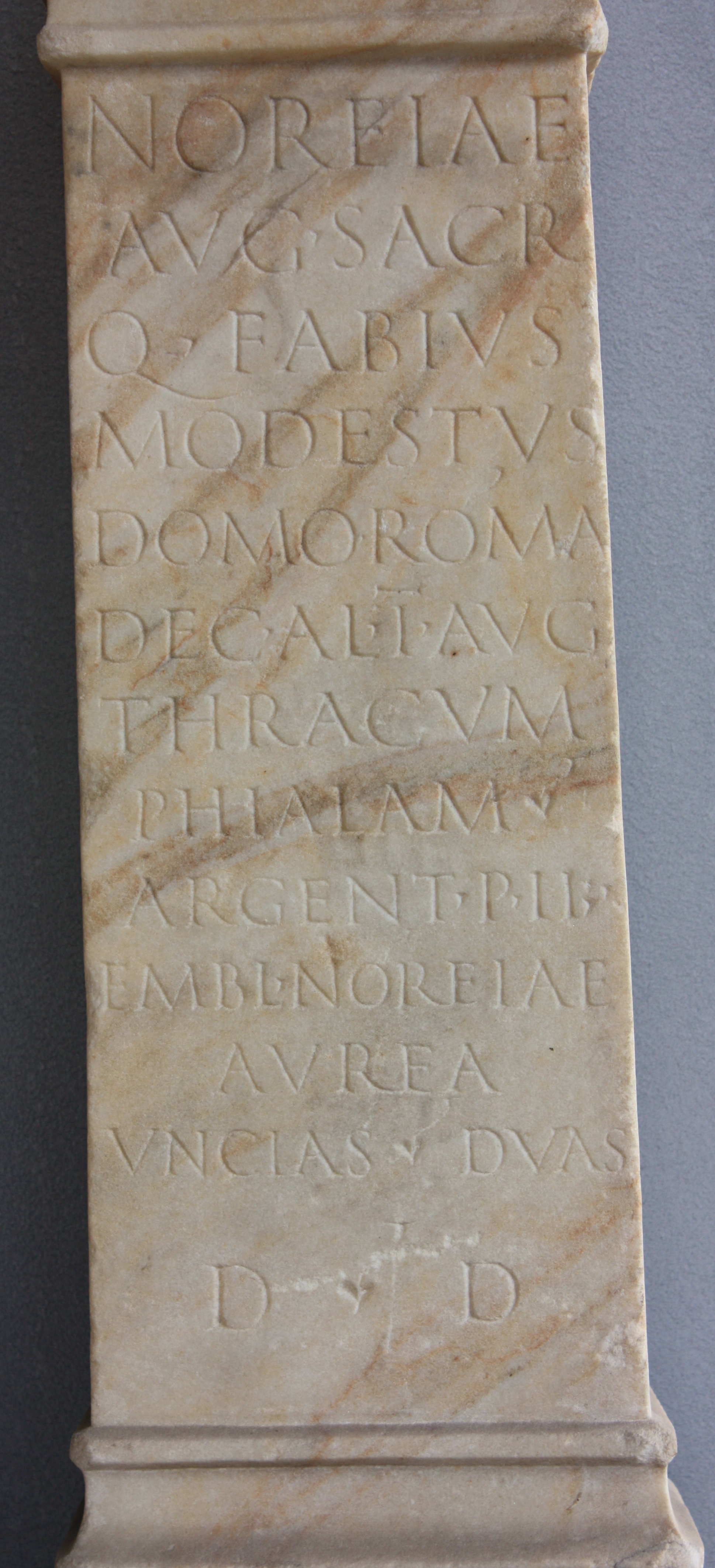 Lapidarium of the Carinthian state museum in Klagenfurt CIL III 4806 = AE 2000, 1147: Noreiae / Aug(ustae) sacr(um) / Q(uintus) Fabius / Modestus / domo Roma / dec(urio) al(ae) I Aug(ustae) / Thracum / phialam / argent(eam) p(ondo) II o(quadrantem) / embl(emata) Noreiae / aurea / uncias duas / d(onum) d(edit)